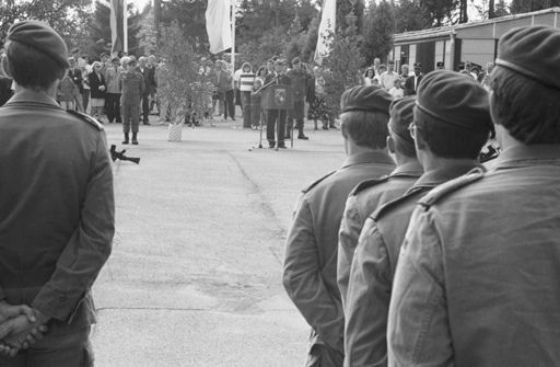 Local paper #27: Barracks